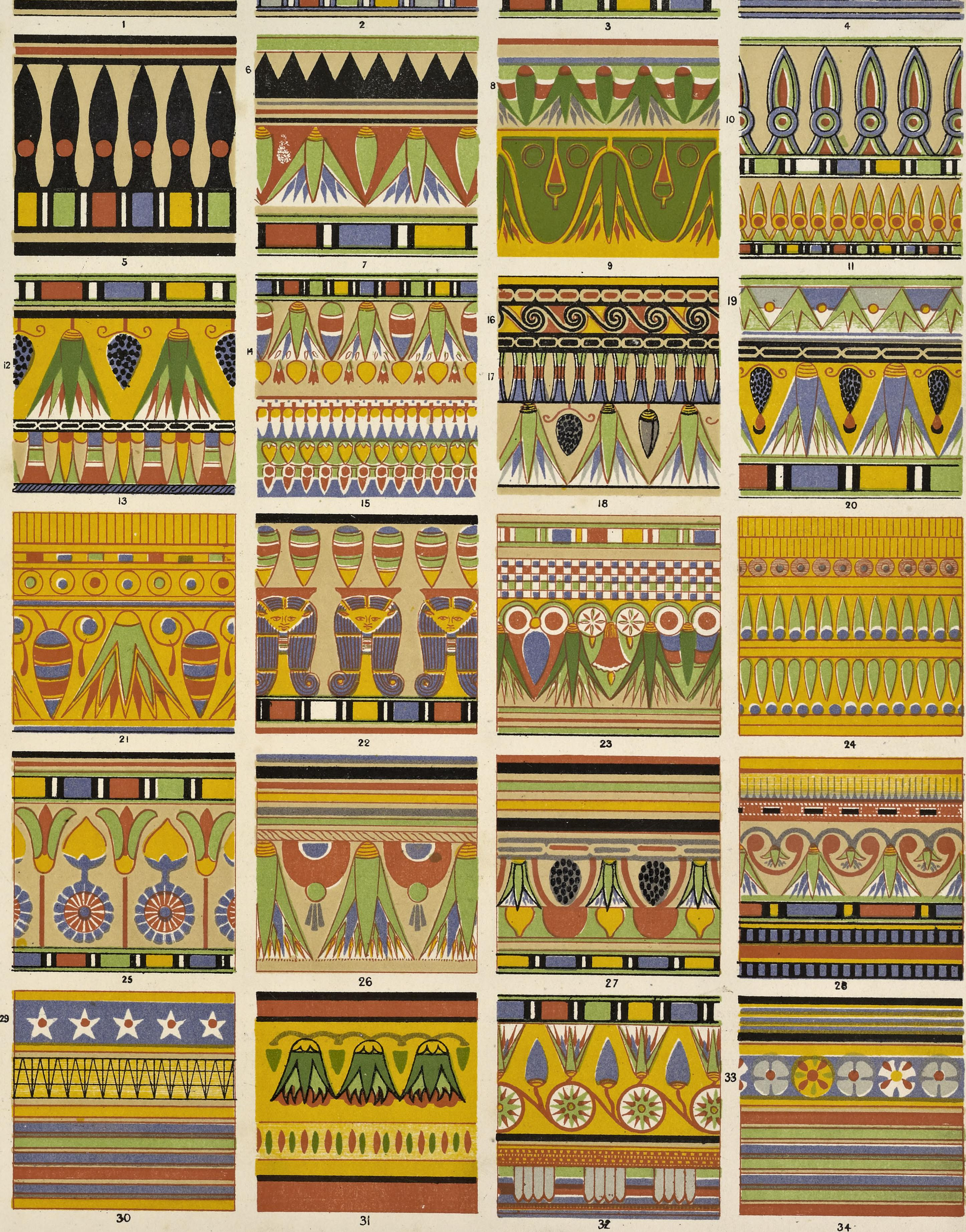 Title: The grammar of ornament Year: 1868 (1860s) Authors: Jones, Owen, 1809-1874 Waring, J. B. (John Burley), 1823-1875 Westwood, J. O. (John Obadiah), 1805-1893 Wyatt, M. Digby (Matthew Digby), Sir, 1820-1877 Bernard Quaritch (Firm), publisher Subjects: Decoration and ornament Decoration and ornament Decorative arts Publisher: London : Bernard Quaritch, 15 Piccadilly Text Appearing Before Image: U II II H ;; II Text Appearing After Image: , II 1 •. ■ w T ■^■IBH ■AEGYPTISCH TAFEL Ylil mw^ww EGYPTIAN M°5 vAAAAAAAAAA/y /\/\/\/\/\/^